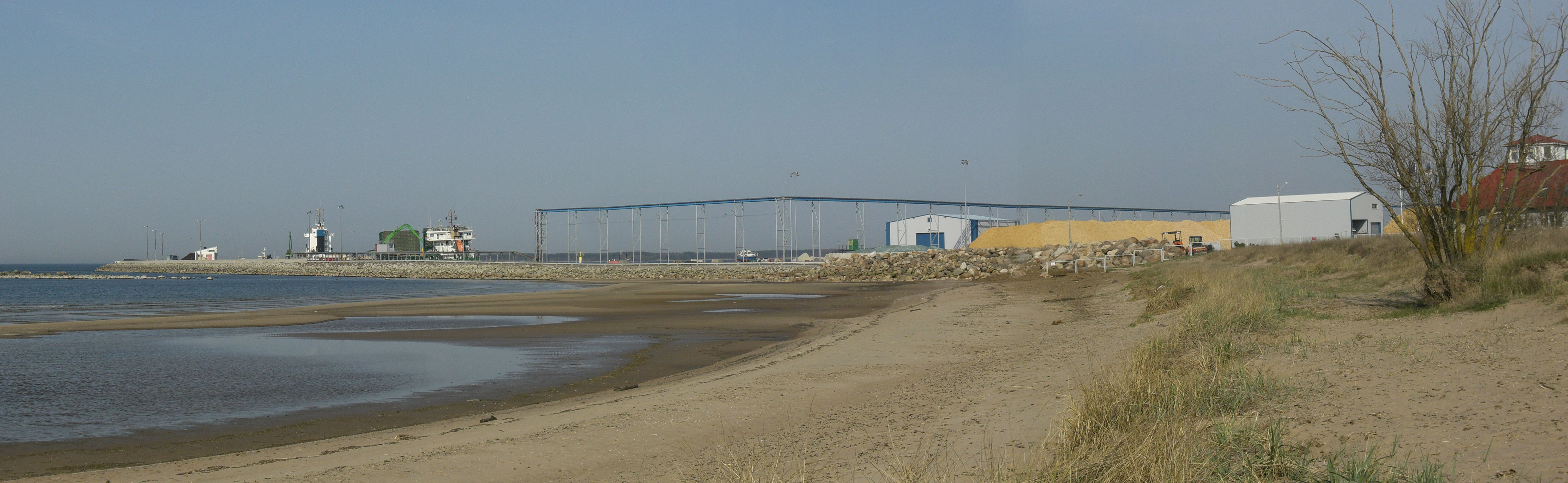 Port in Kunda, Estionia. Panorama